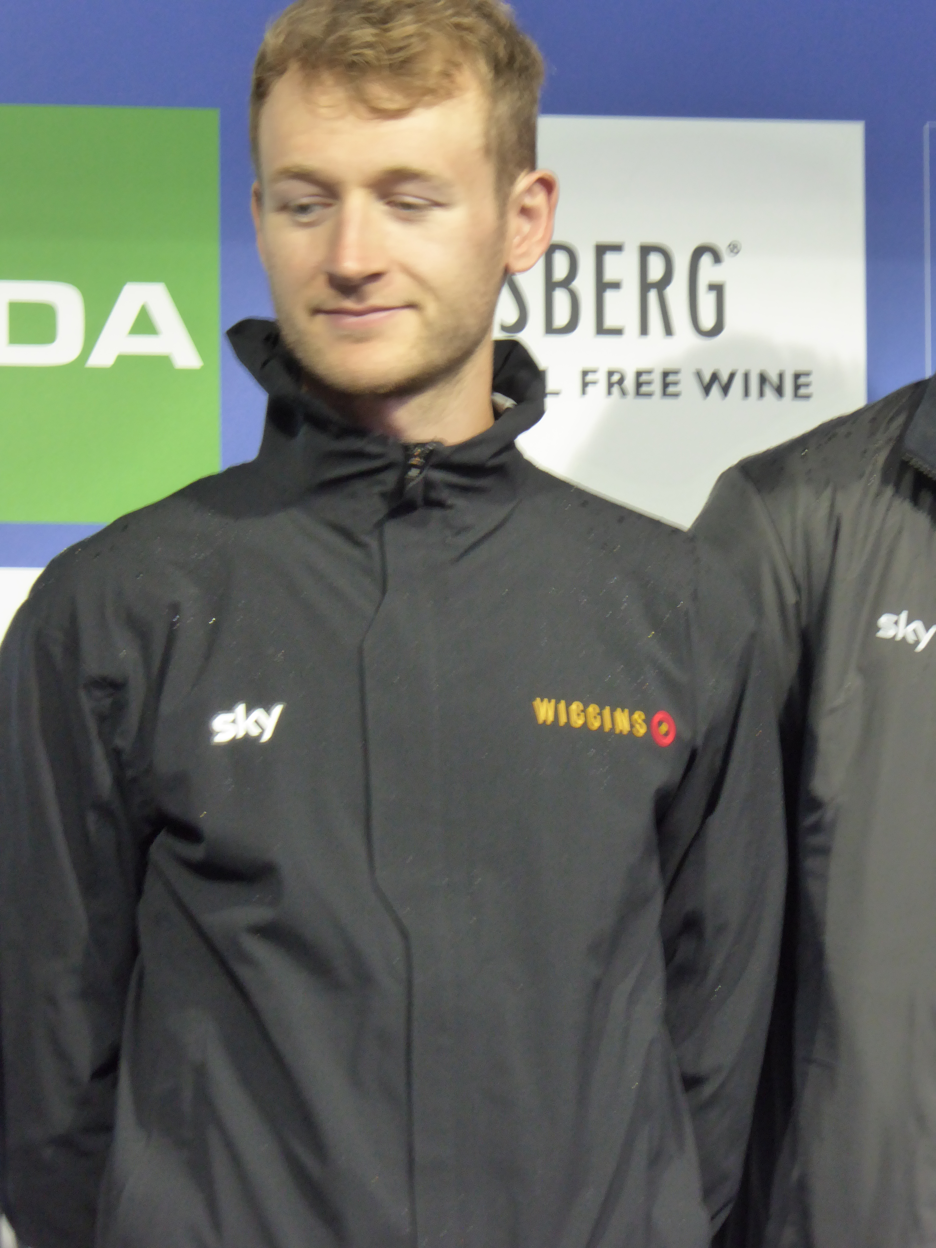 Mark Christian (WIGGINS), pictured at the 2016 Tour of Britain team presentation in Glasgow on 3 September 2016.